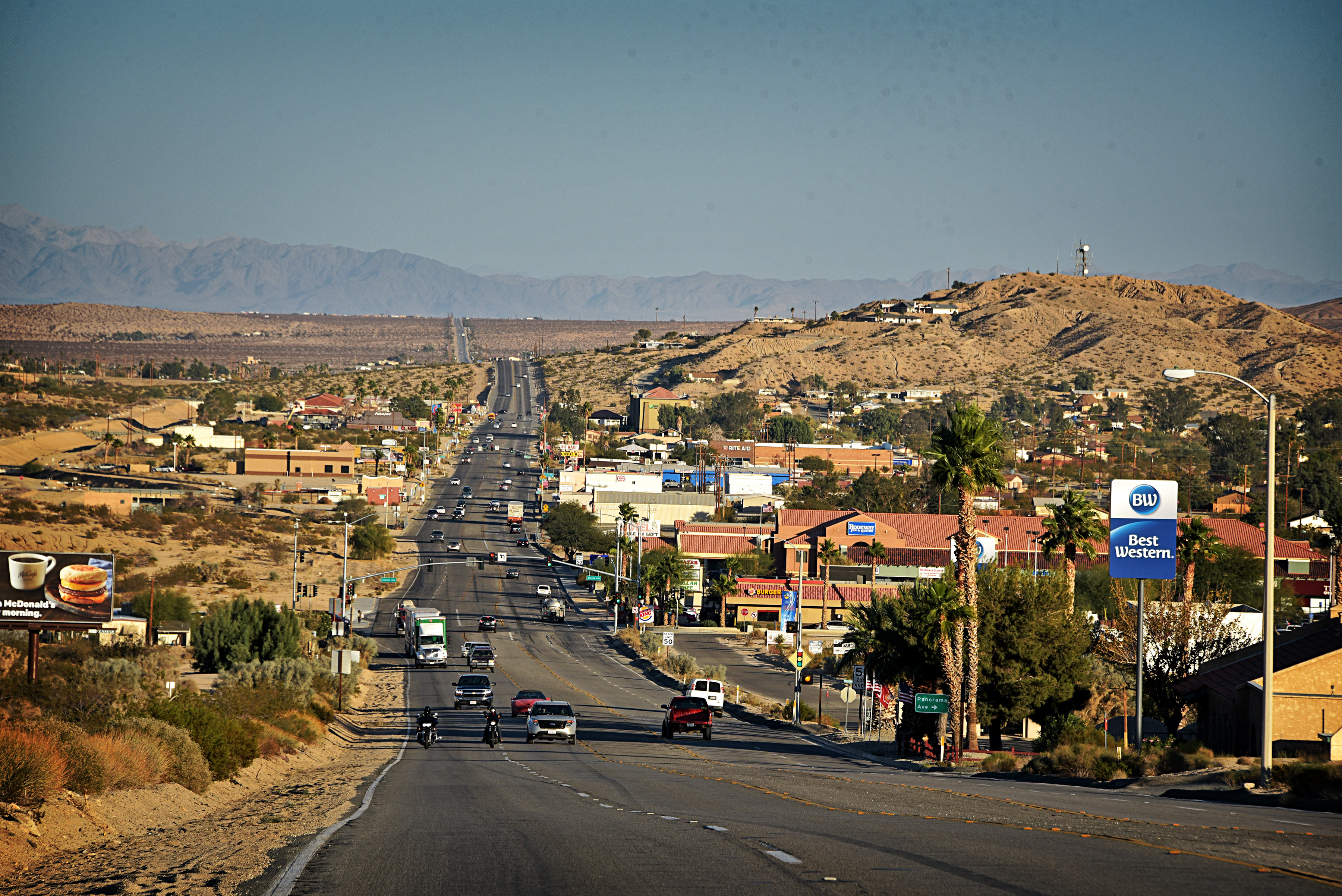 29 Palms California looking East on Hwy. 62 - Photo by Glenn Francis of Pro